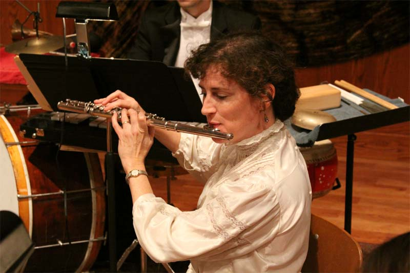 Flutist Leslie Cullen of the Paragon Ragtime Orchestra performing at Hesston College in Hesston, Kansas on October 26, 2008. Whenever this photo is used attribution must be provided to Hugh Pickens and link provided to Hugh Pickens